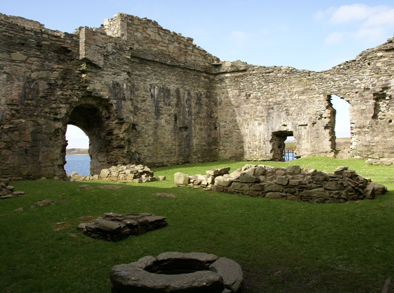 Castle Sween, Argyll, Scotland - inner courtyard from the north east